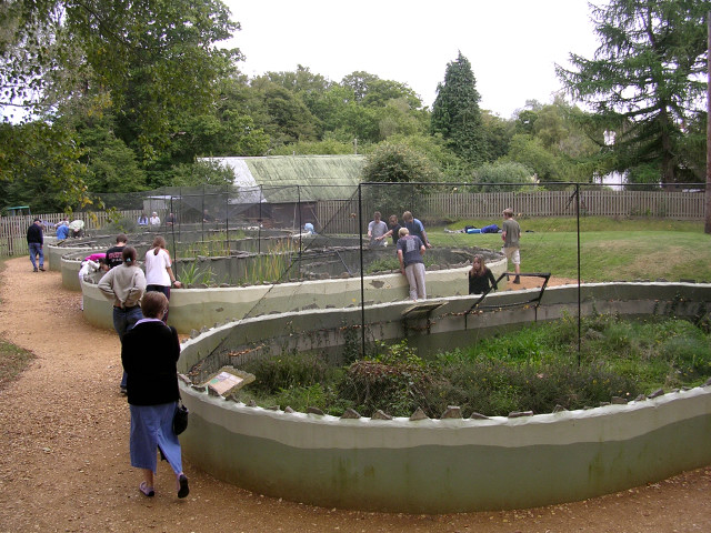 New Forest Reptile Centre, Holidays Hill, New Forest. This is what you will find at the New Forest Reptile Centre, which has had various names in the past (including the Holidays Hill Reptillary). The pits have various indigenous snakes and lizards and on a warm day they can be seen basking in their "natural" environment. The Forestry Commission website says that "The Centre actively encourages the conservation and re-introduction of these animals across the country."